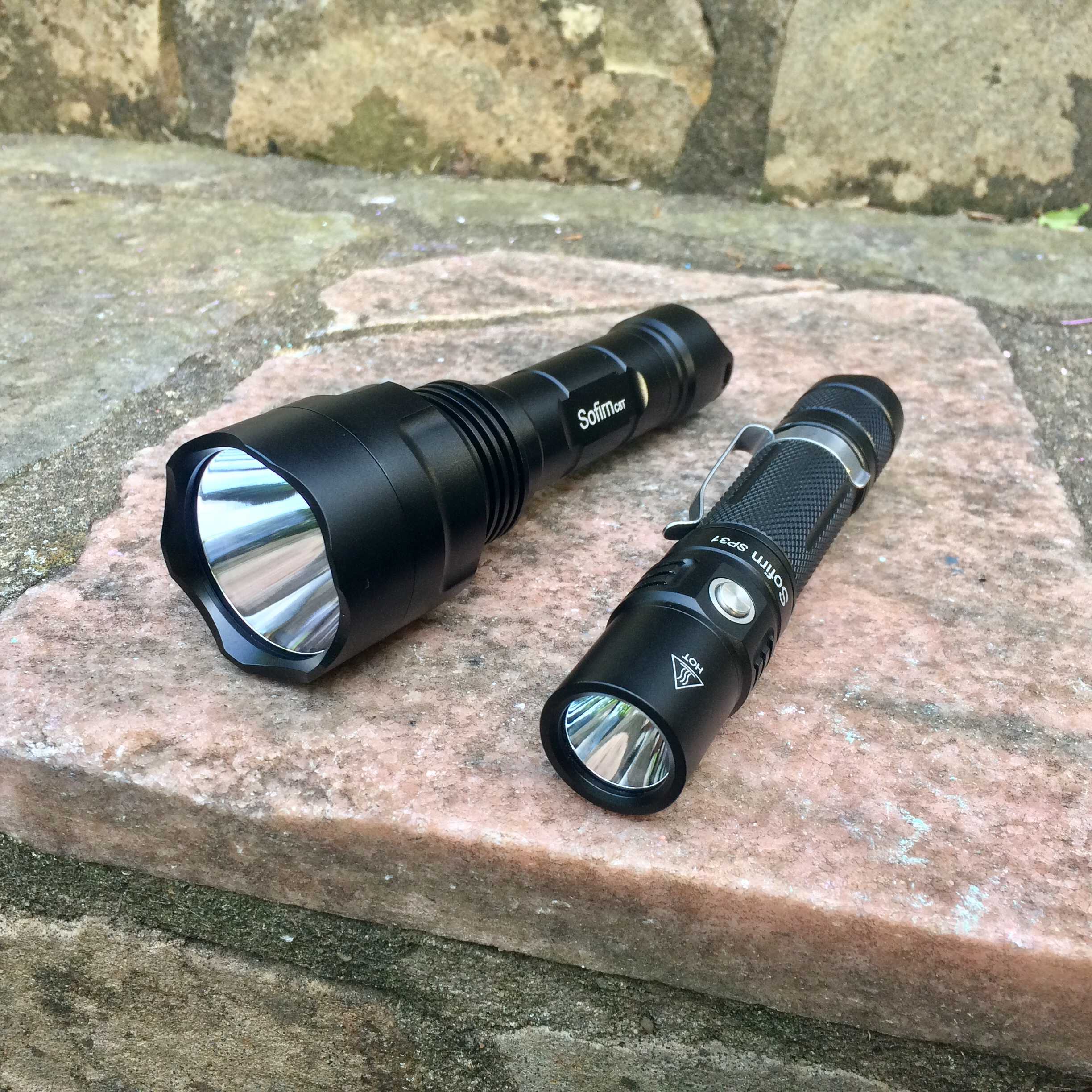 A set of LED flashlights. C8 style on the left (Sofirn C8T: up to 1,310 lm), tube style on the right (Sofirn SP31; up to 1,100 lm).